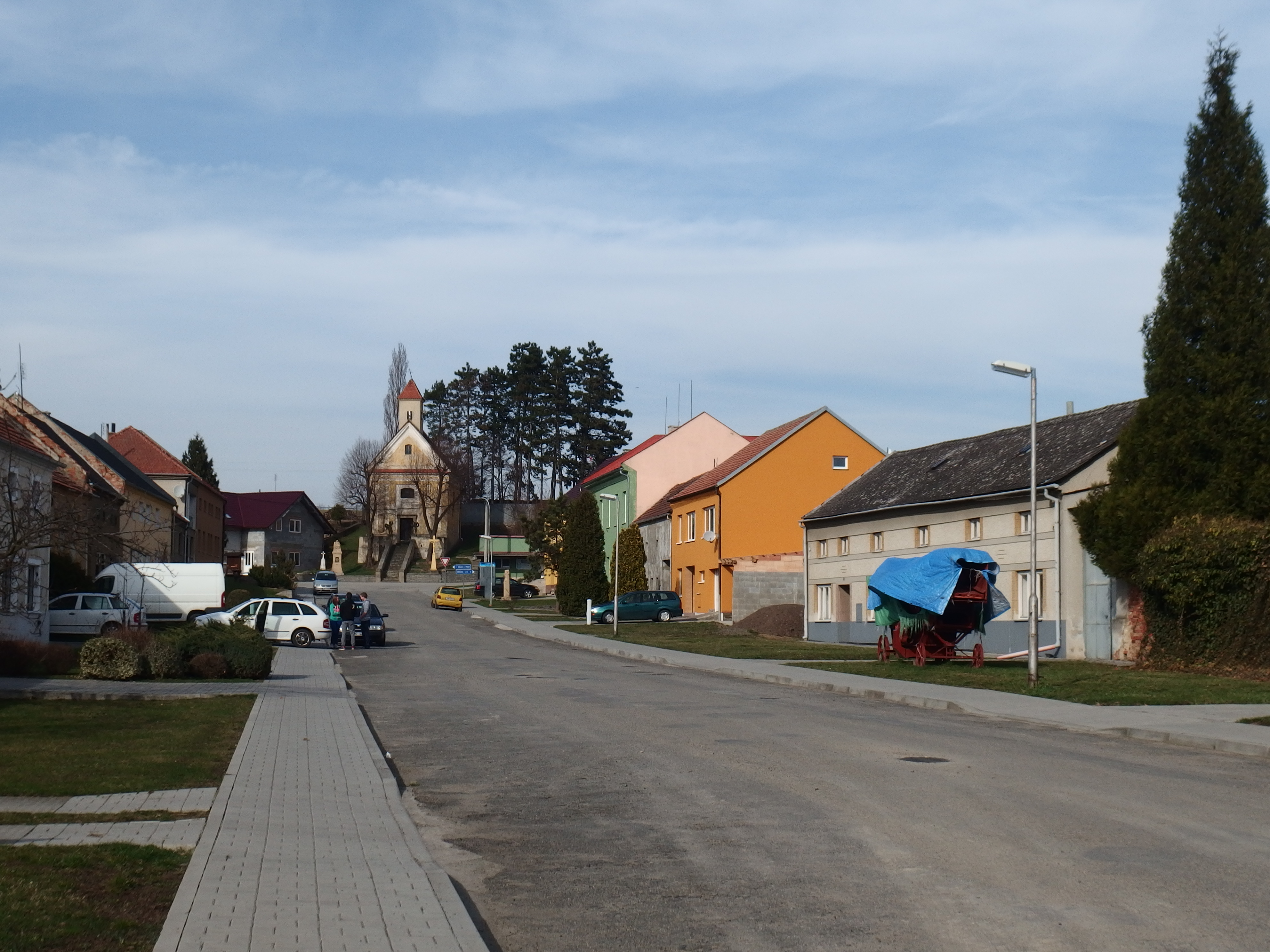 Hradčany-Kobeřice, Prostějov District, Czech Republic, part Kobeřice.